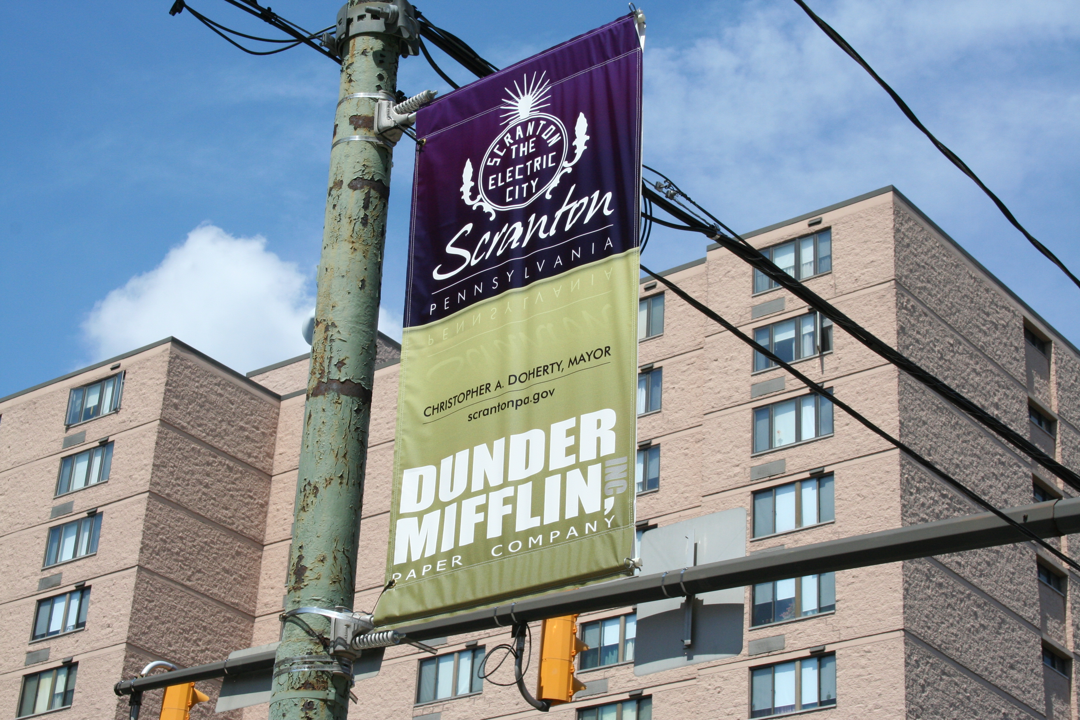 A banner promoting Dunder-Mifflin, the fictional paper company on NBC's "The Office" hangs outside city hall in Scranton, Pennsylvania.